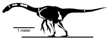 Skeletal reconstruction of Nothronychus mckinleyi.